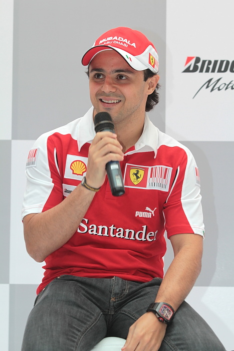 F1 Driver Filipe Massa at the Bridgestone press conference at Marina Square main foyer during the F1 period.